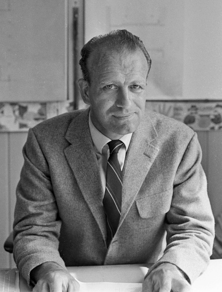 European Space Centre tussen Noordwijk en Katwijk. Dhr. Larssen, architect